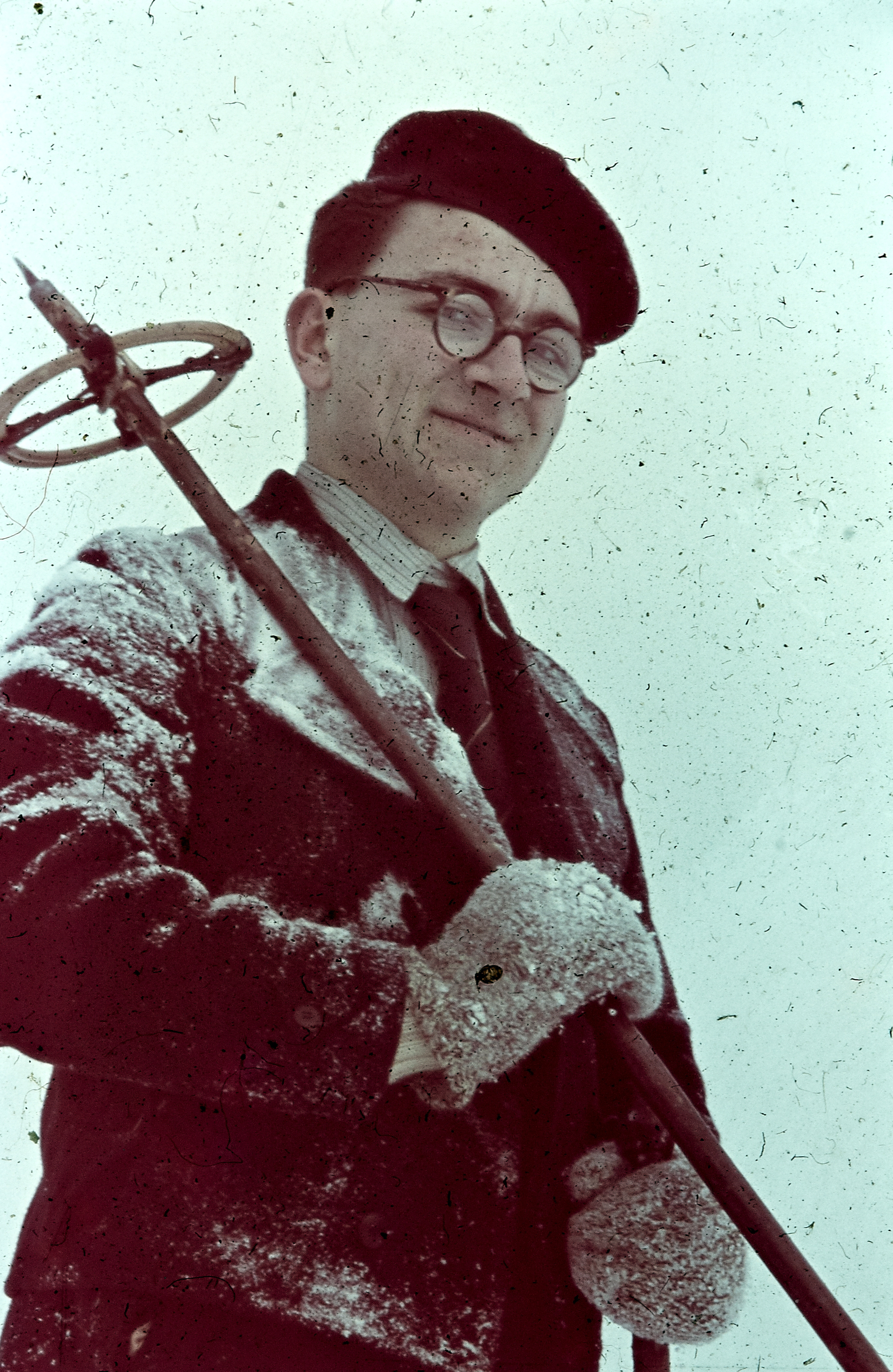 Hungary, Agfacolor Tags: colorful, skiing, winter